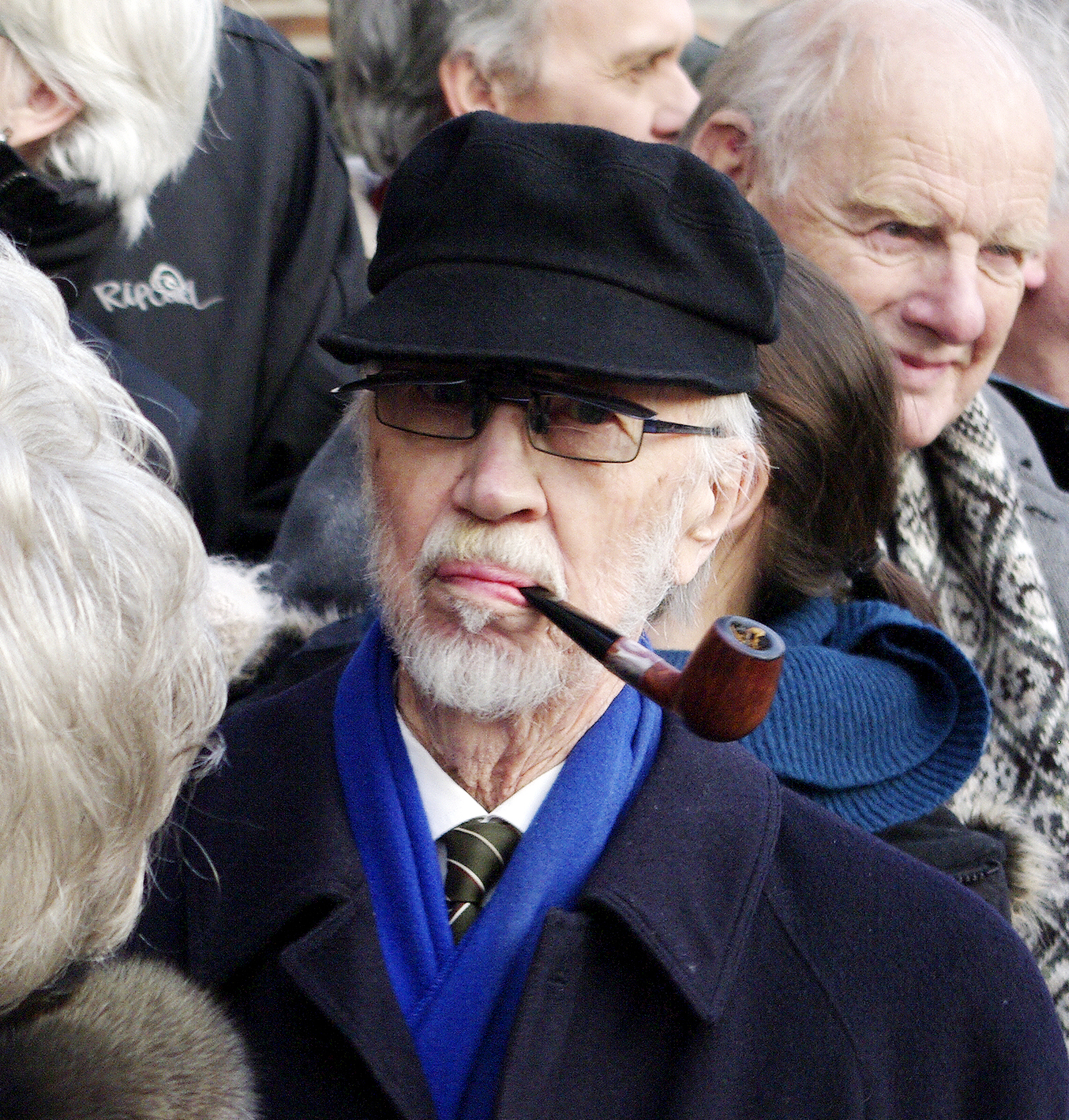 Professor Erik Cinthio.